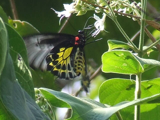 Southern Birdwing Troides minos (cramer) 1779 Female Southern Birdwing nectaring at Silent Valley national park.